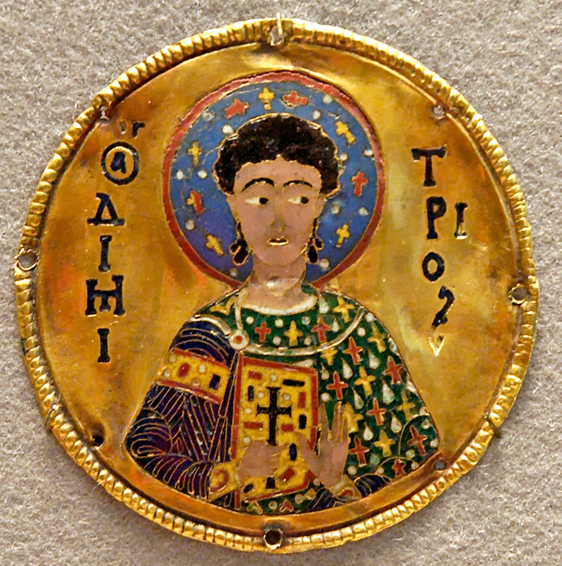 St. Demetrios. Byzantine medallion from the frame of an icon with St. Gabriel, housed in the Djumati Monastery, Georgia. Nine others medallions from the same frame are now in the Metropolitan Museum of Art.